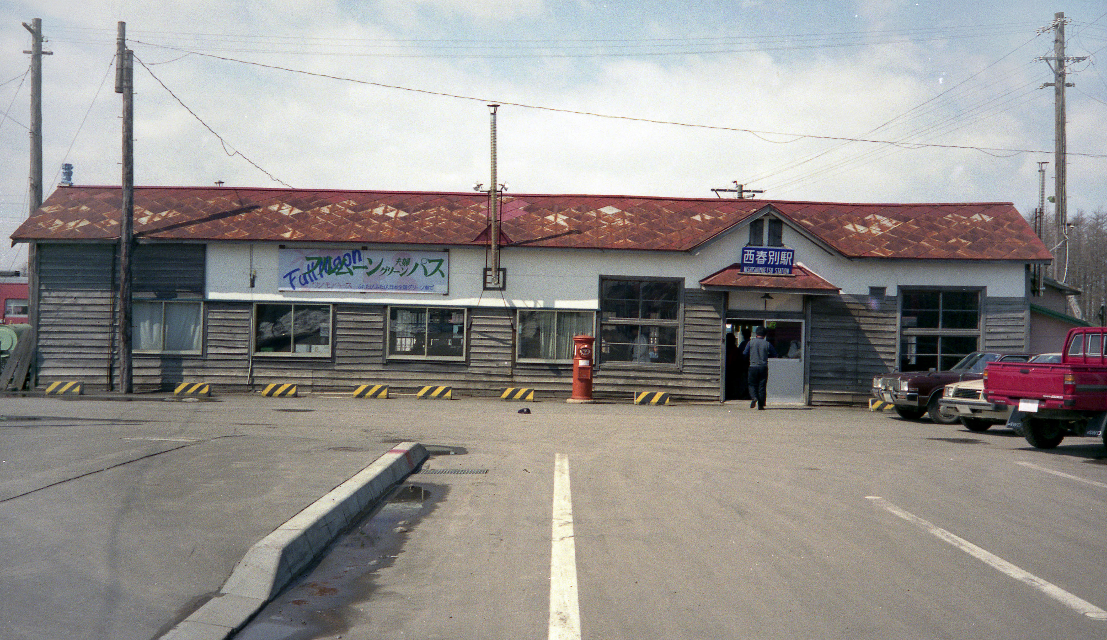 The building of Nishishunbetsu Station,Hokkaido Railway Company Shibetsu Line(before abolished)